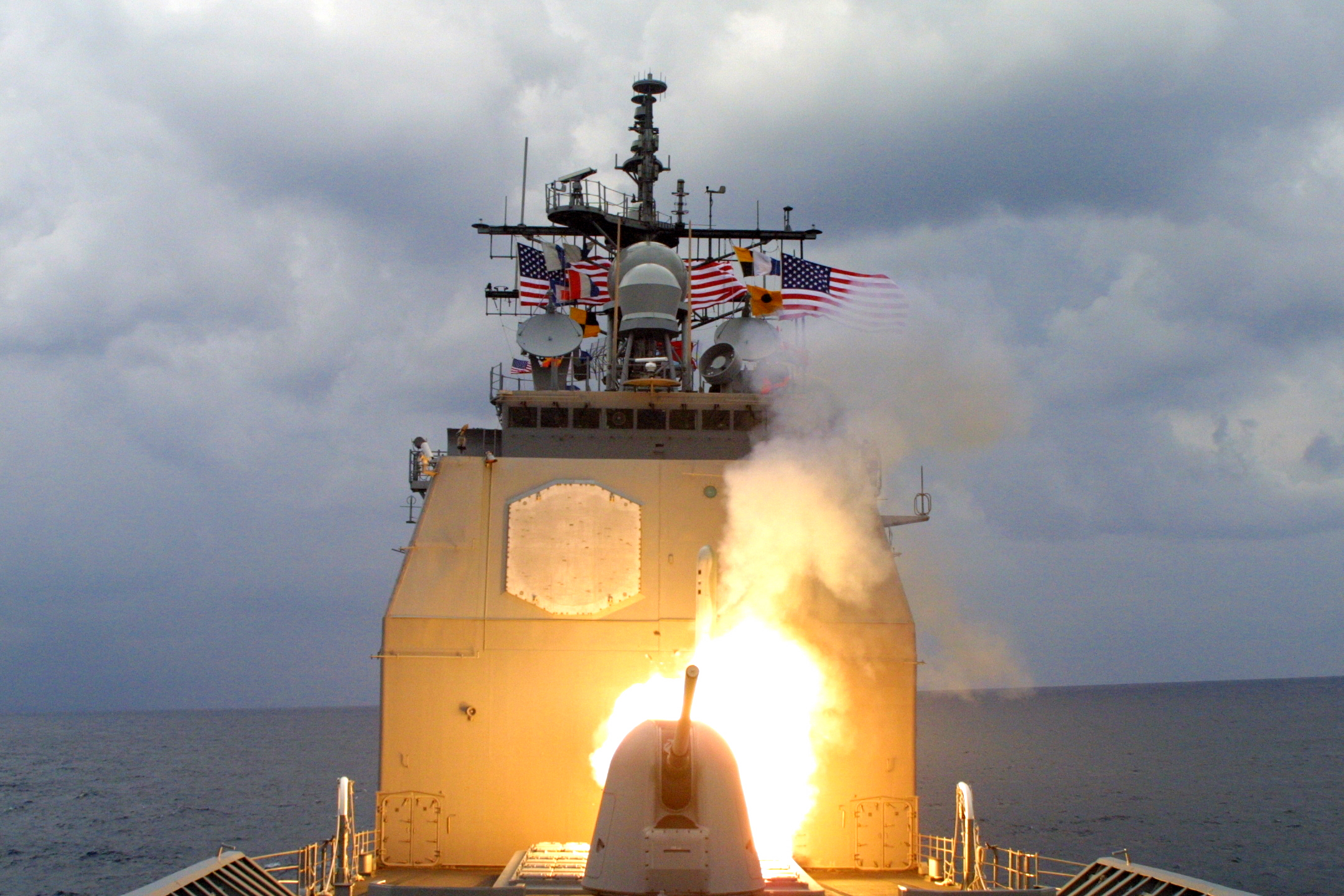 030323-N-5642T-002 At sea aboard USS Anzio (CG 68) Mar. 23, 2003 -- A Tomahawk Land Attack Missile (TLAM) is launched from the guided missile cruiser USS Anzio. Anzio is operating in the eastern Mediterranean Sea conducting missions in support of Operation Iraqi Freedom. Operation Iraqi Freedom is the multi-national coalition effort to liberate the Iraqi people, eliminate Iraq’s weapons of mass destruction, and end the regime of Saddam Hussein. U.S. Navy photo by Intelligence Specialist 1st Class Larry S. Talley. (RELEASED)